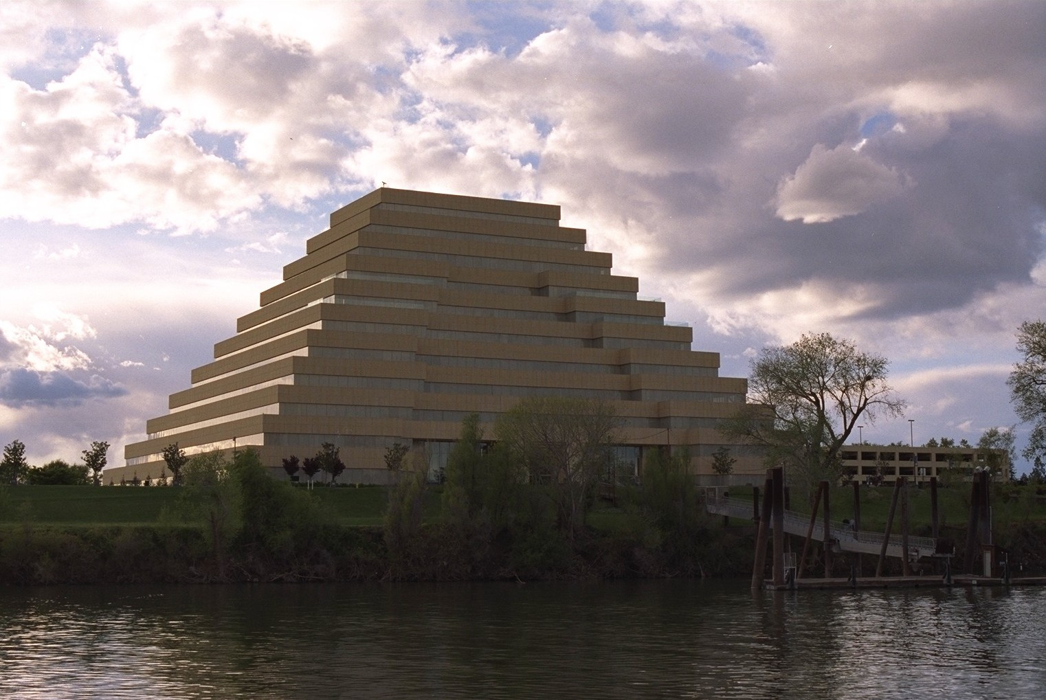 The Ziggurat — an office building in West Sacramento (Yolo County), viewed across the Sacramento River from the western edge of Sacramento. The headquarters of the California Department of General Services. Designed to resemble the ancient Mesopotamian ziggurats, the building was completed in 1997. Kapampangan: Ing makatalakad a Ziggurat king lakanbalen dane albugan ning Sacramento, mayayakit sumngid ning Ilug Sacramento king albugan danggut ning Sacramento.